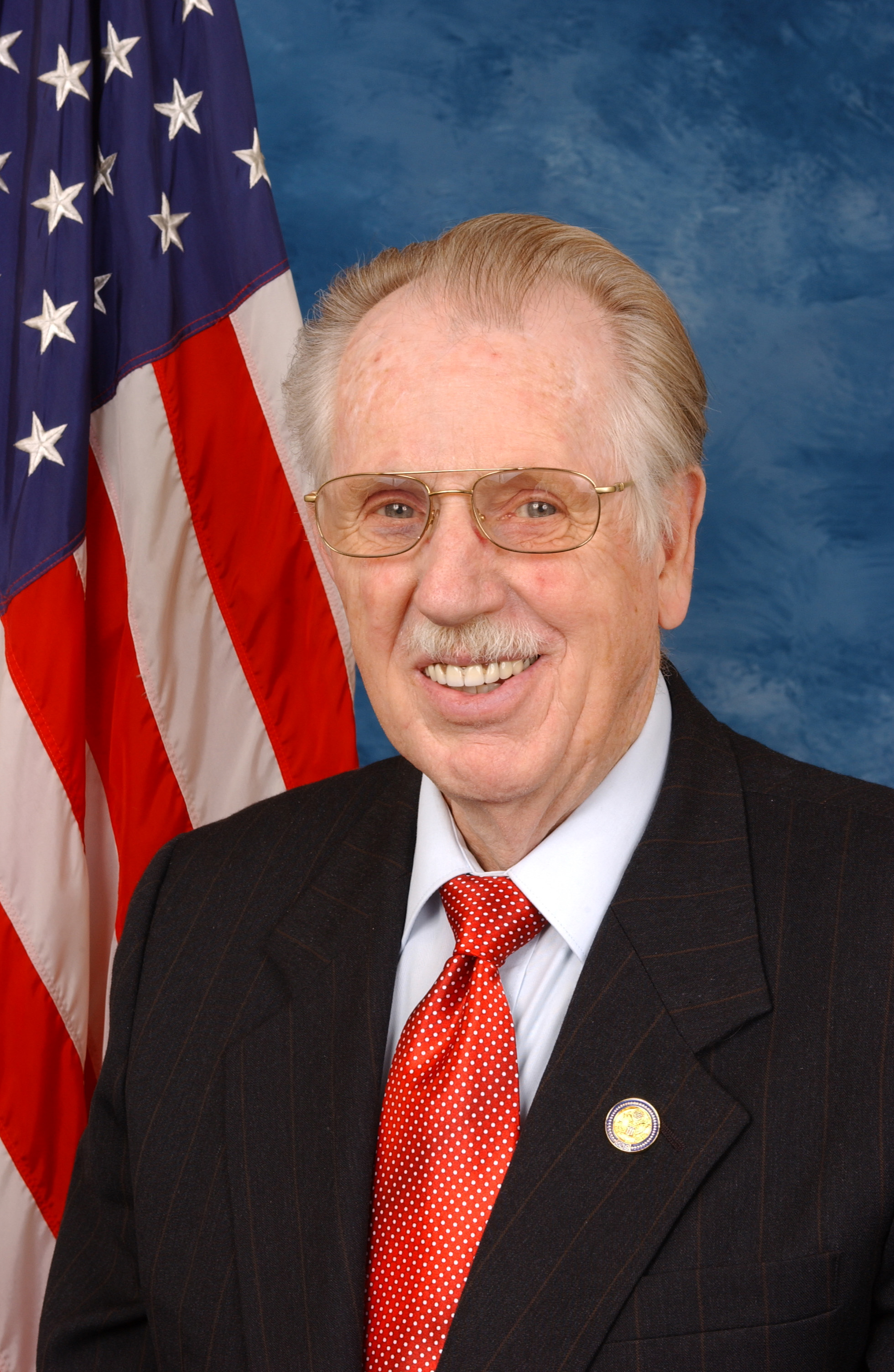 Roscoe Bartlett, Congressman from Maryland.